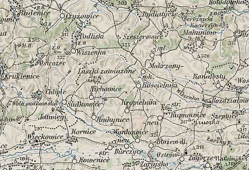 villages Radenice Chliple Szeptyce district Lwów (1895)